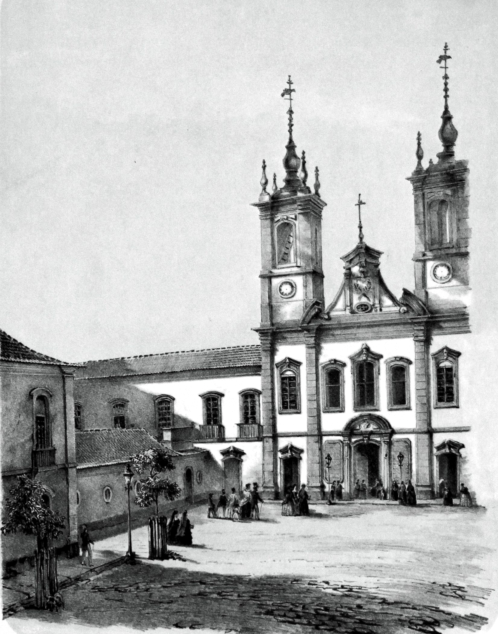 Colégio Pedro II and Church of San Joaquin, 1856 (Drawing by P. G. Bertichem)